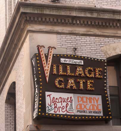 Looking southwest from Thompson Street at the Village Gate Sign on the corner of Thompson and Bleecker Streets in New York CIty